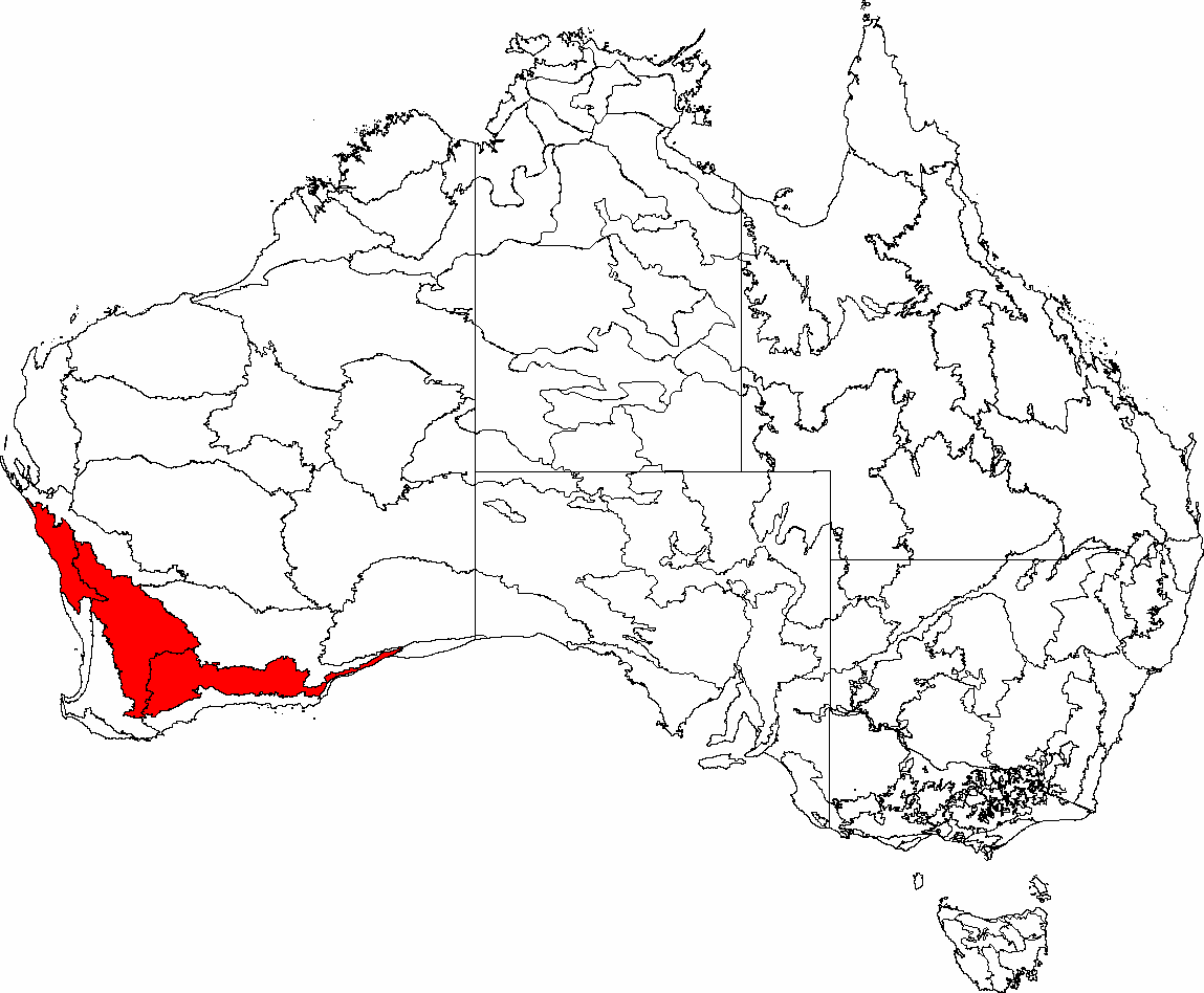 This is a map of the Interim Biogeographic Regionalisation of Australia (IBRA), with state boundaries overlaid. The regions that comprise Hopper's Transitional Rainfall Zone of Beard's South West Botanical Province are shown in red.